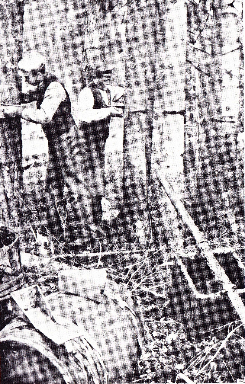 Two men applying glue to trees to prevent the spreading of the butterfly Lymantria monacha (Blach Arches). Picture taken during the outbreak in Sweden between 1898-1902.